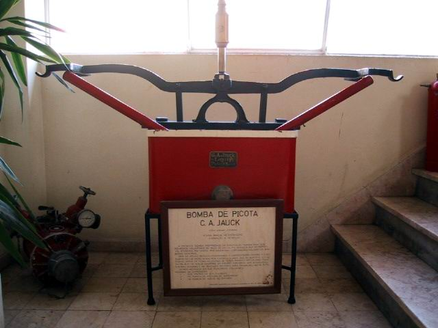 AHBVPA-MeioHistorico1